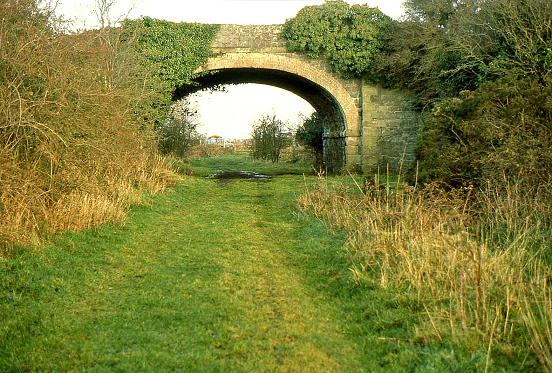 Old railway near Saintfield. See 183058. This bridge carries the Liberty Road across the old the Belfast and County Down mainline from Comber to Newcastle. The view is towards Comber and Belfast. The line closed in 1950.